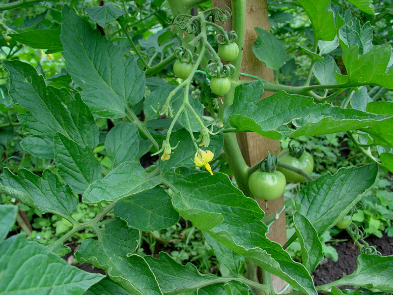 Solanum lycopresicum, flowres and young fruits, Czech Republic, Jaroměř, July 2006